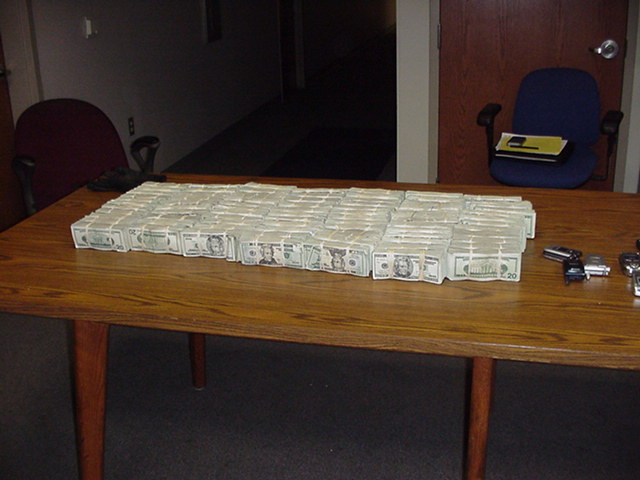 Money seizure in BMF case; Black Mafia Family article